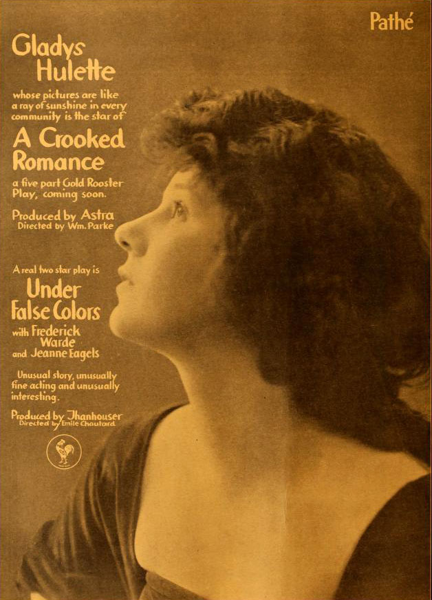 Advertisement in Moving Picture World with Gladys Hulette for the film A Crooked Romance (1917).